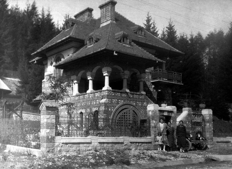 It is the Socolescu villa in Sinaia-Cumpătu, Judeţul Prahova, Romania. The picture has been taken in 1925. Built by Toma T. Socolescu for his wife Florica. The house has been sold since but still exists. We are the only heirs and descendants of Toma T. Socolescu (died in 1960 in Bucharest) and therefore owner of all his intellectual rights.